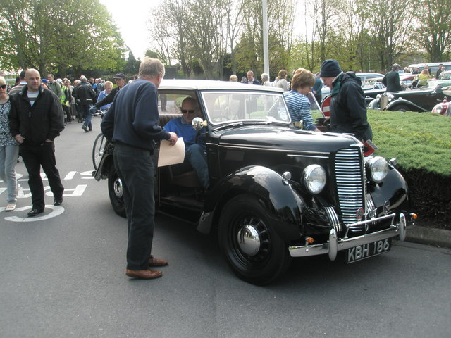 New arrival for the 2009 Havant Mayor's Rally (7) An annual event to raise money for his chosen charities. This year there were 121 motor vehicles and 83 motorbikes. (DVLA) first registered 6 May 1947, 1185cc